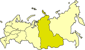 east siberia: economic region based on Image:Economic regions of Russia.png